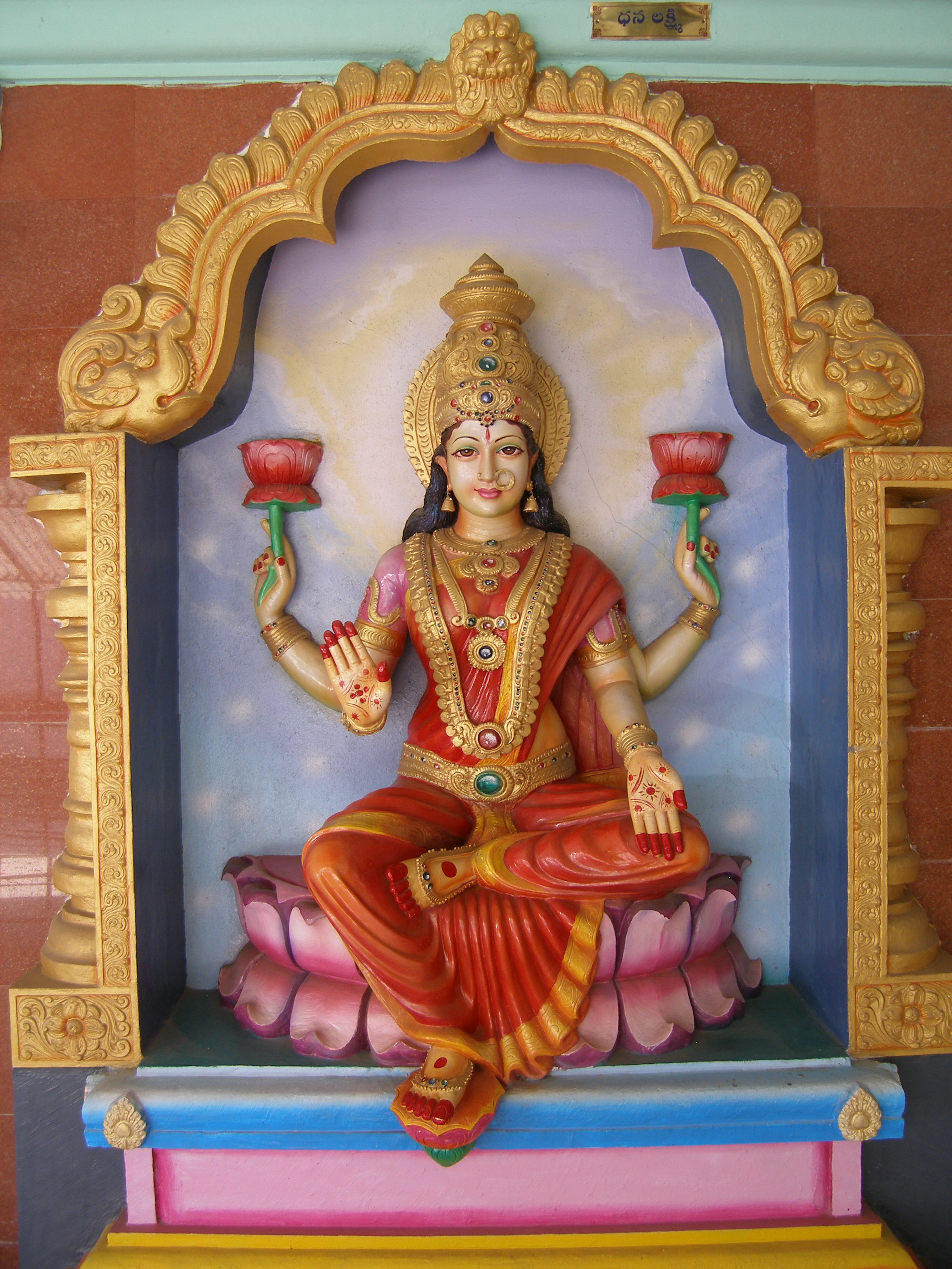 Dhana Laxmi at Narayana Tirumala.